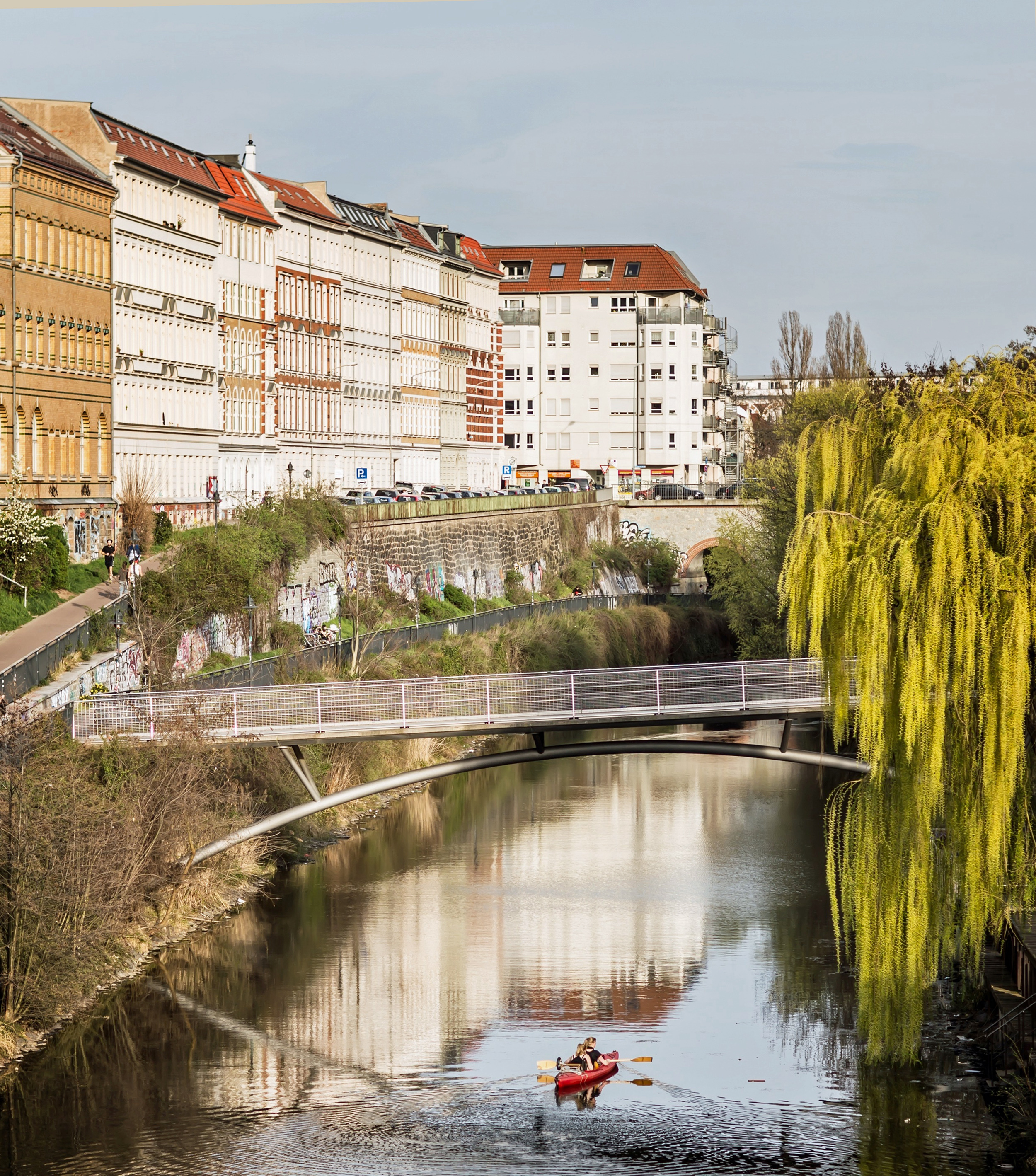 Karl-Heine-Kanal am Social Impact Lab (31.03.2017 | by Anne Schwerin, CC BY 4.0)